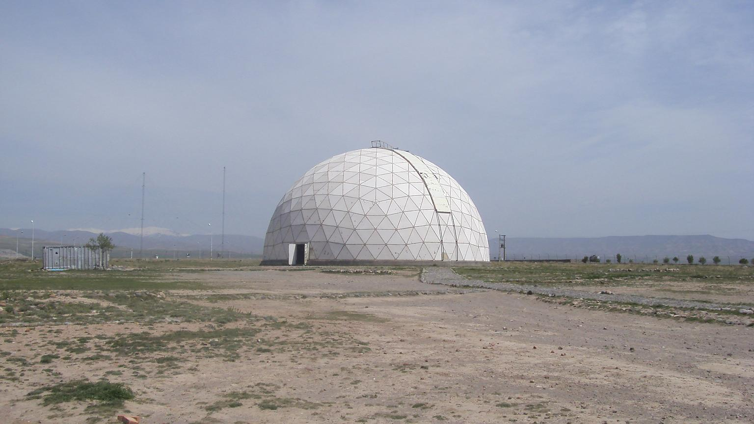 Maragheh observatory, Maragheh, Iran